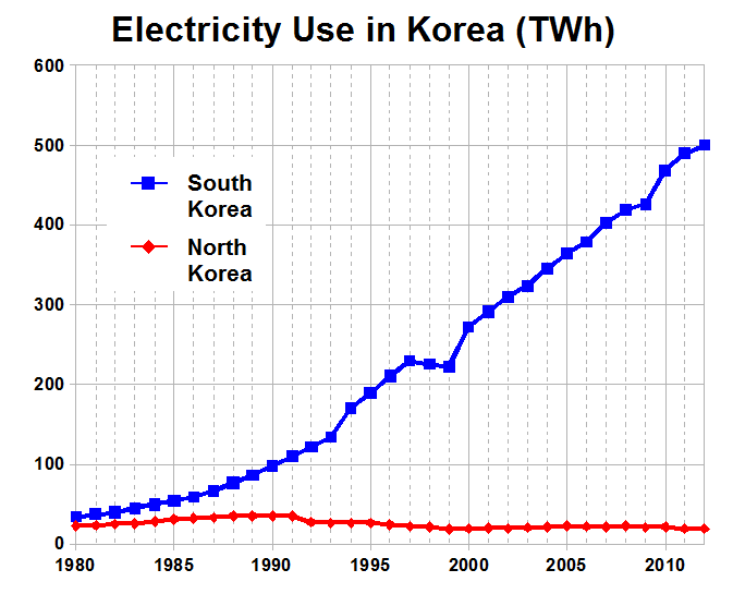 Reference: the EIA - [1] Data from there, graph I created in Excel.